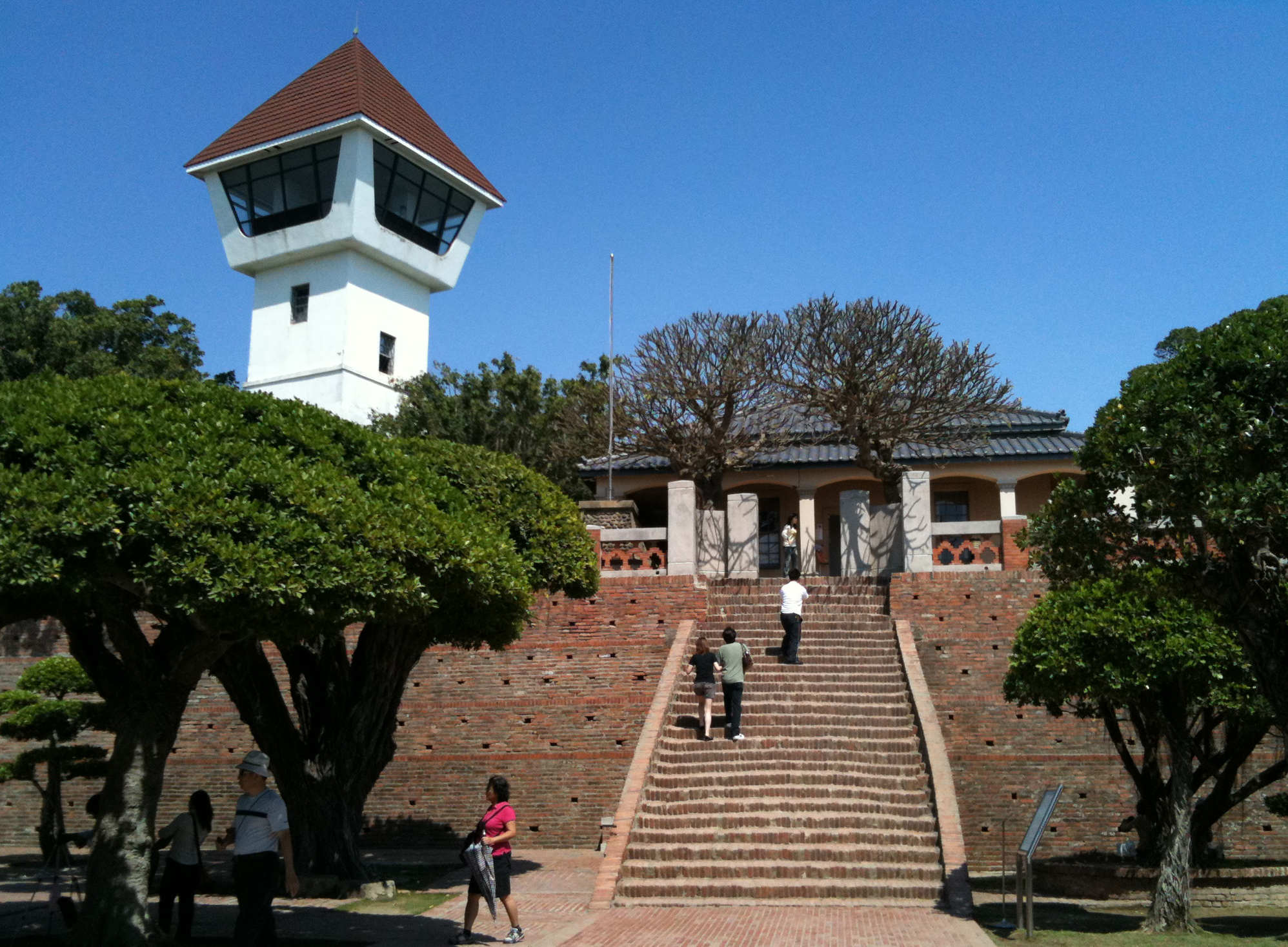 Anping Fort, in Anping, Tainan, Taiwan